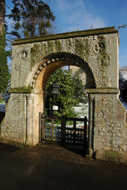 Entrance Arch, Birlingham Church A grand entrance arch to the churchyard of Birlingham church.